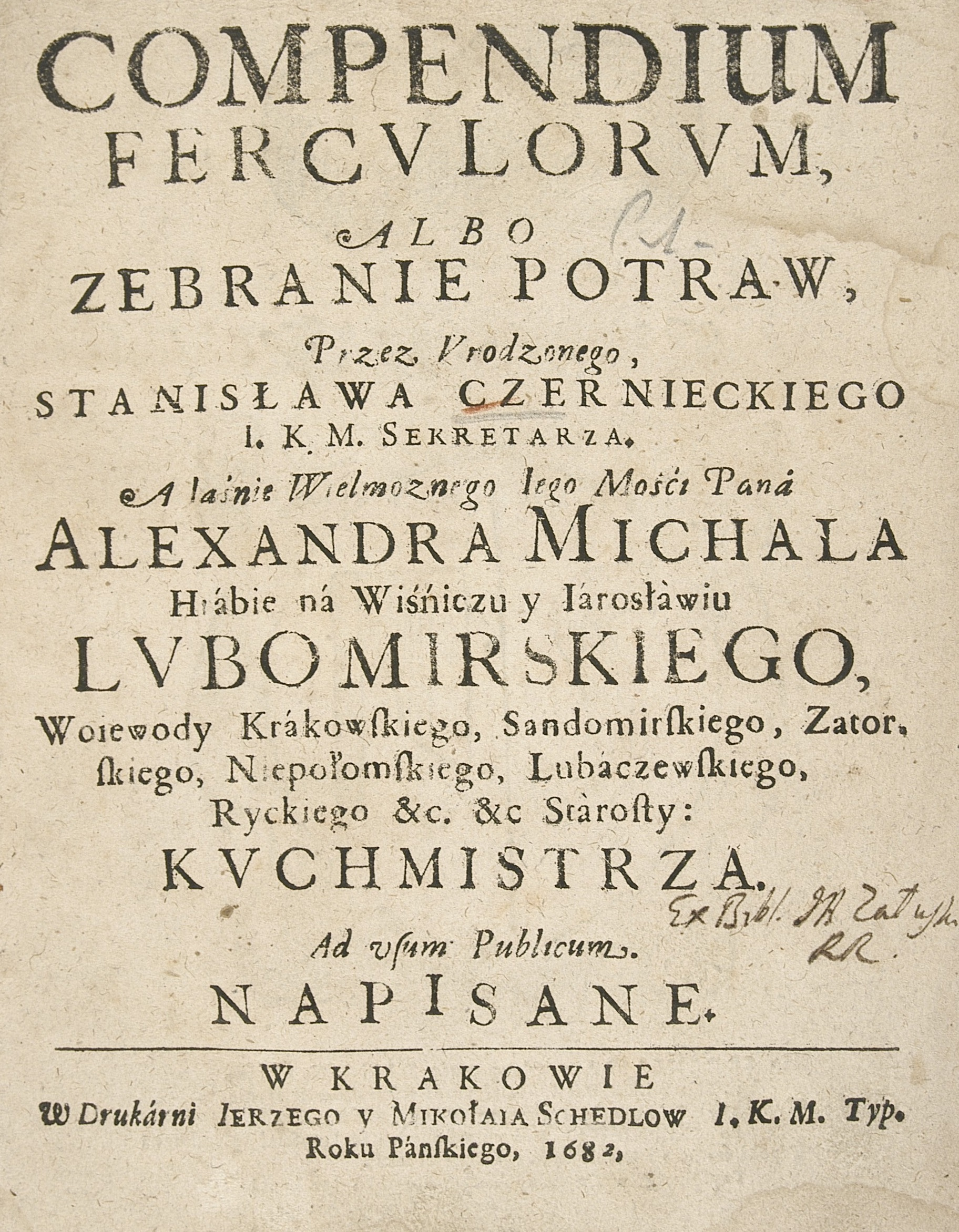 Title page of Compendium ferculorum by Stanisław Czerniecki (1682) Full text: Compendium Ferculorum, or A Collection of Dishes by the [noble-]born Stanisław Czerniecki, Secretary to His Royal Majesty and Head Chef to the Right Honourable Aleksander Michał Lubomirski, Count of Wiśnicz and Jarosław, Voivode of Kraków, Starosta of Sandomierz, Zator, Niepołomice, Lubaczów, Ryki, etc., etc., written for public use. In Kraków, at the printing shop of Jerzy and Mikołaj Schedl, Typographers to His Royal Majesty. A.D. 1682